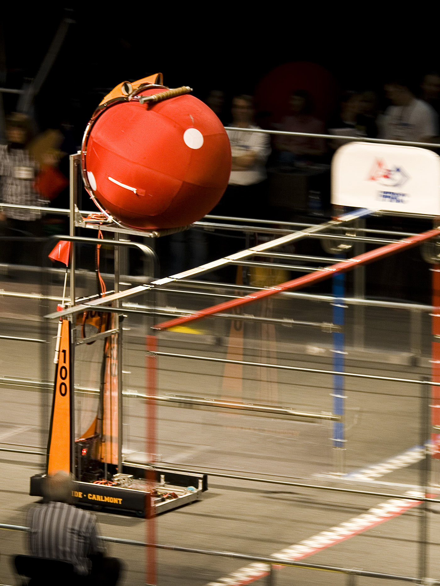 A robot participates in the 2008 FIRST Robotics Competition. Team 100 is hurdling a 1-meter diameter trackball over an overpass.